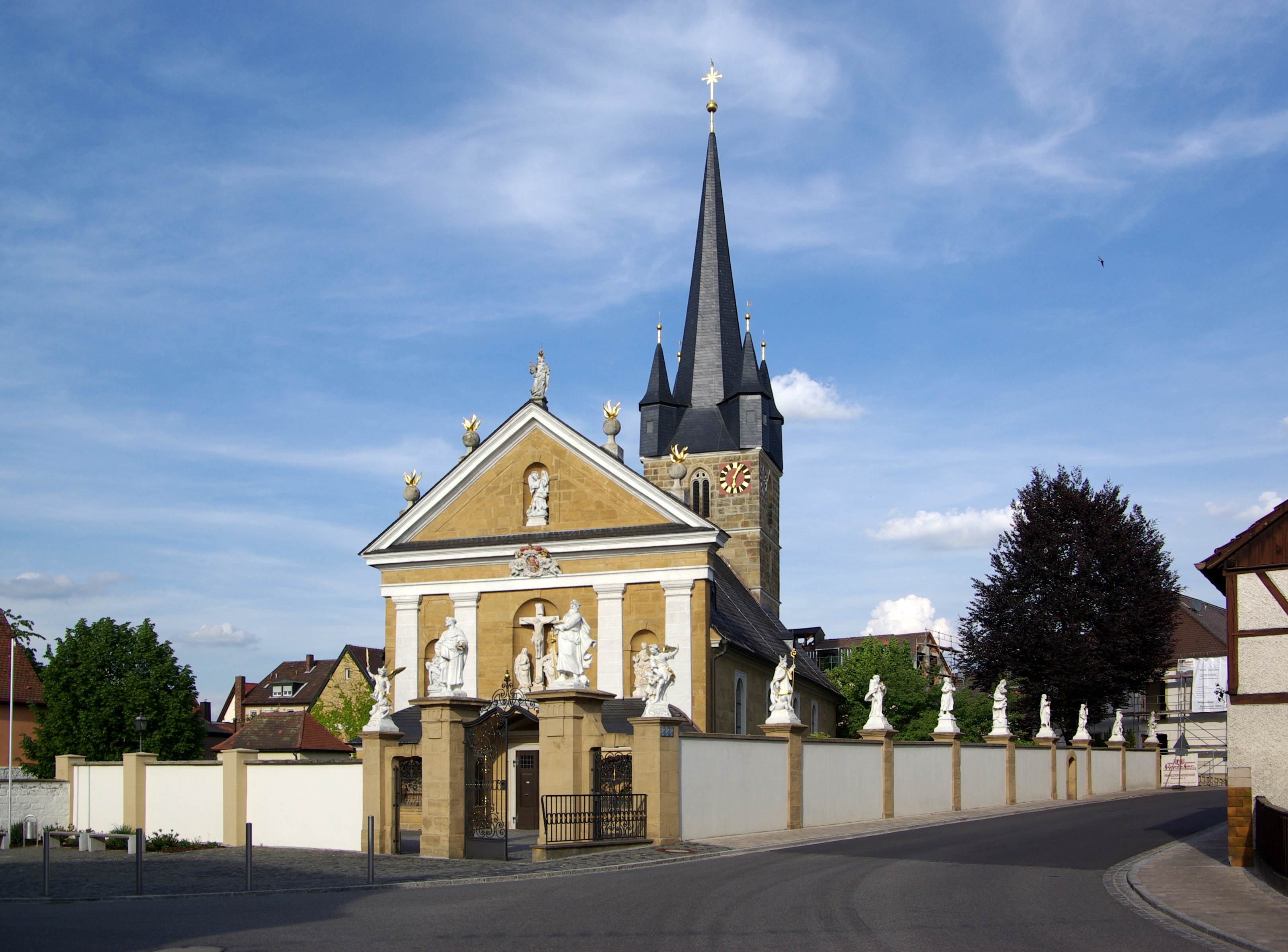 Germany, Memmelsdorf, church "Assumption of Mary"